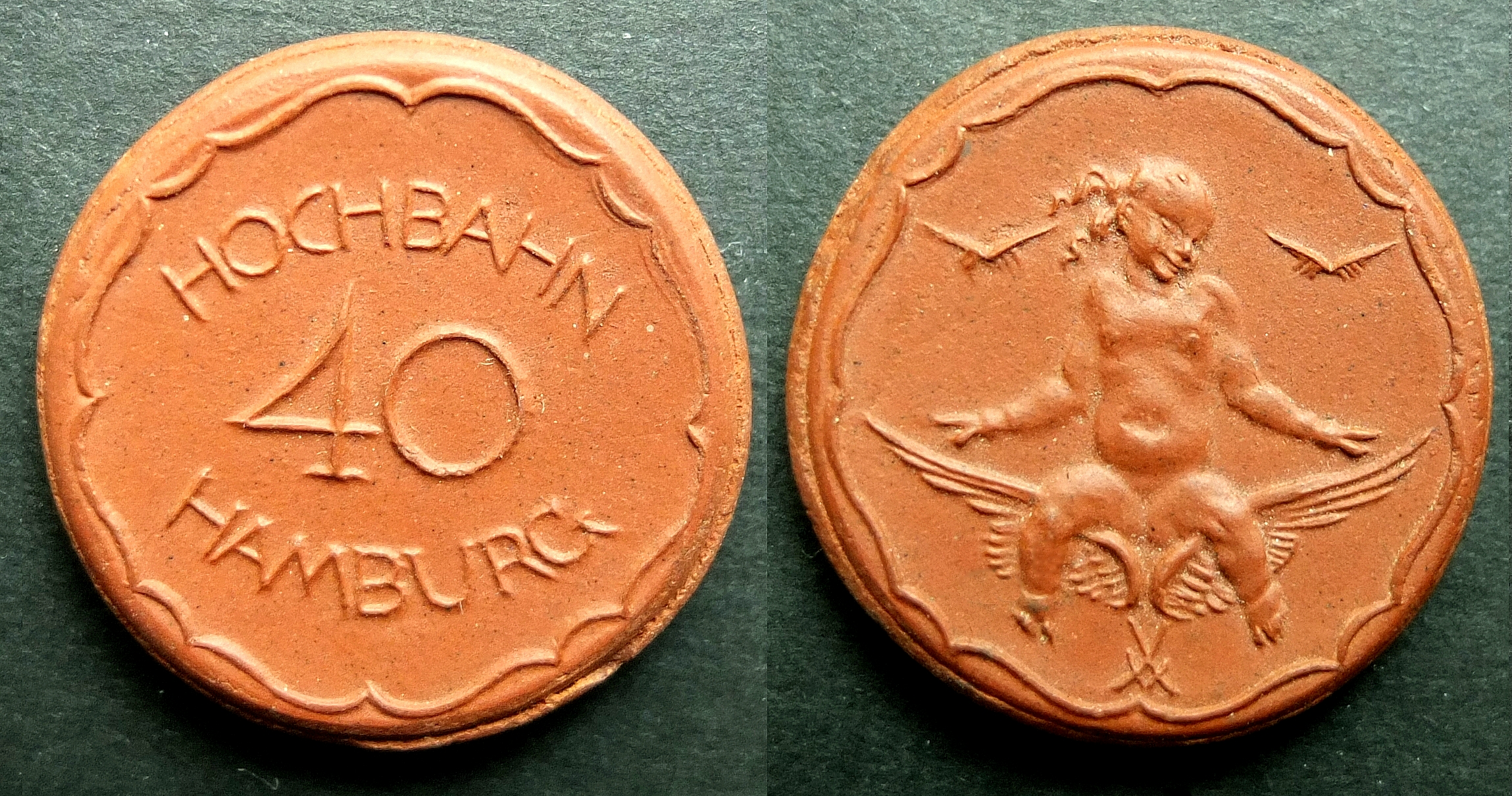 Notgeld HOCHBAHN HAMBURG, 40 PFENNIG, of 1921. Notgeld (German for "emergency money" or "necessity money"), coin produced of so-called Böttger-Stoneware by Staatliche Porzellan-Manufaktur Meissen, Germany, depicting the crossed swords logo for Meissen as the mintmark, above a putto sitting on wings. Catalogue: Menzel 10551.4, Diam. 27 mm.